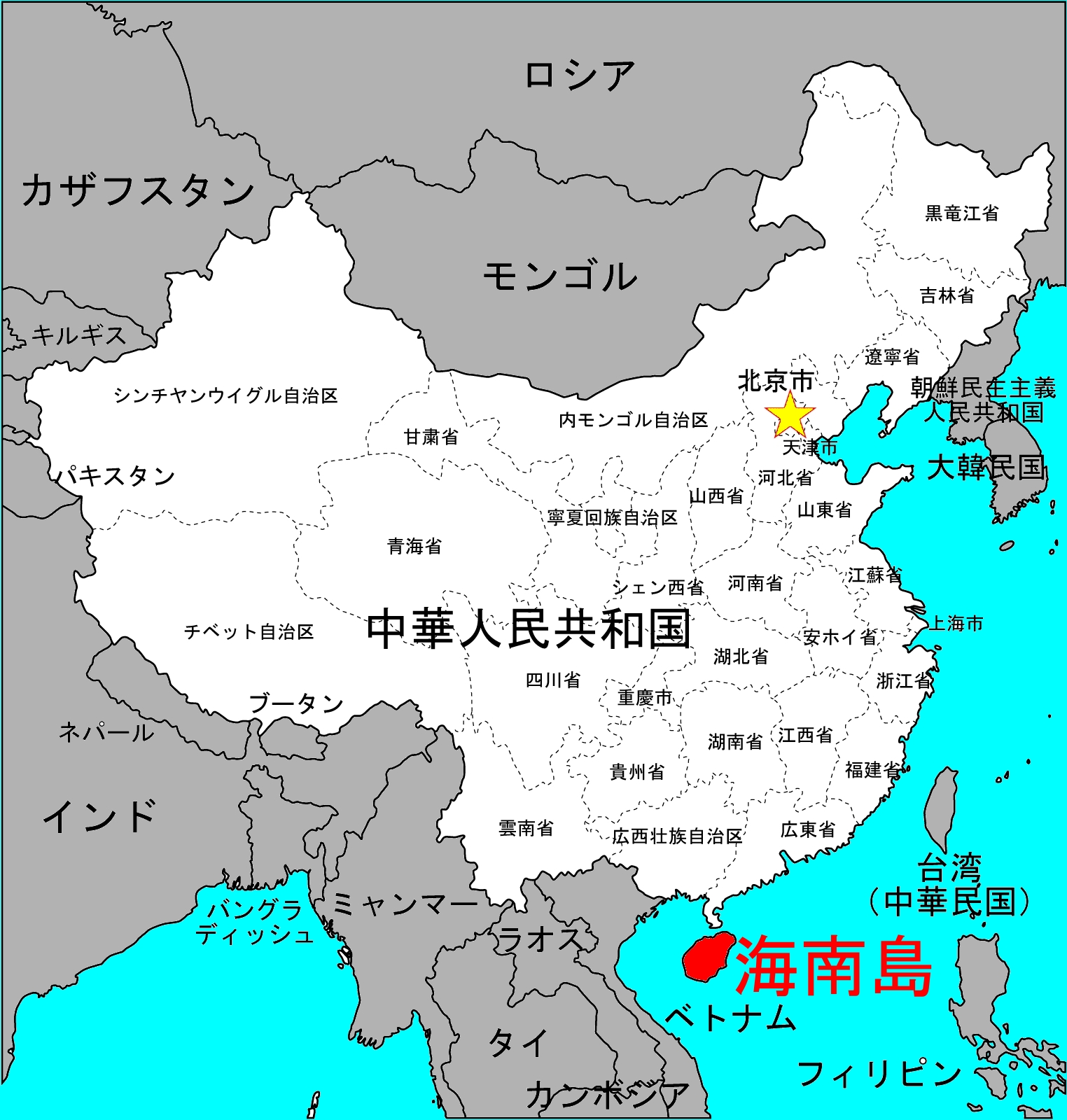 This is the map of Hǎinán Dǎo, Hǎinán province in China.